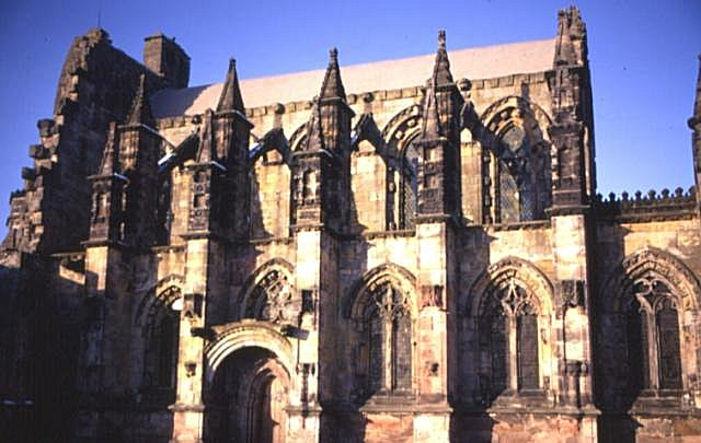 Rosslyn Chapel in the scotish village Roslin